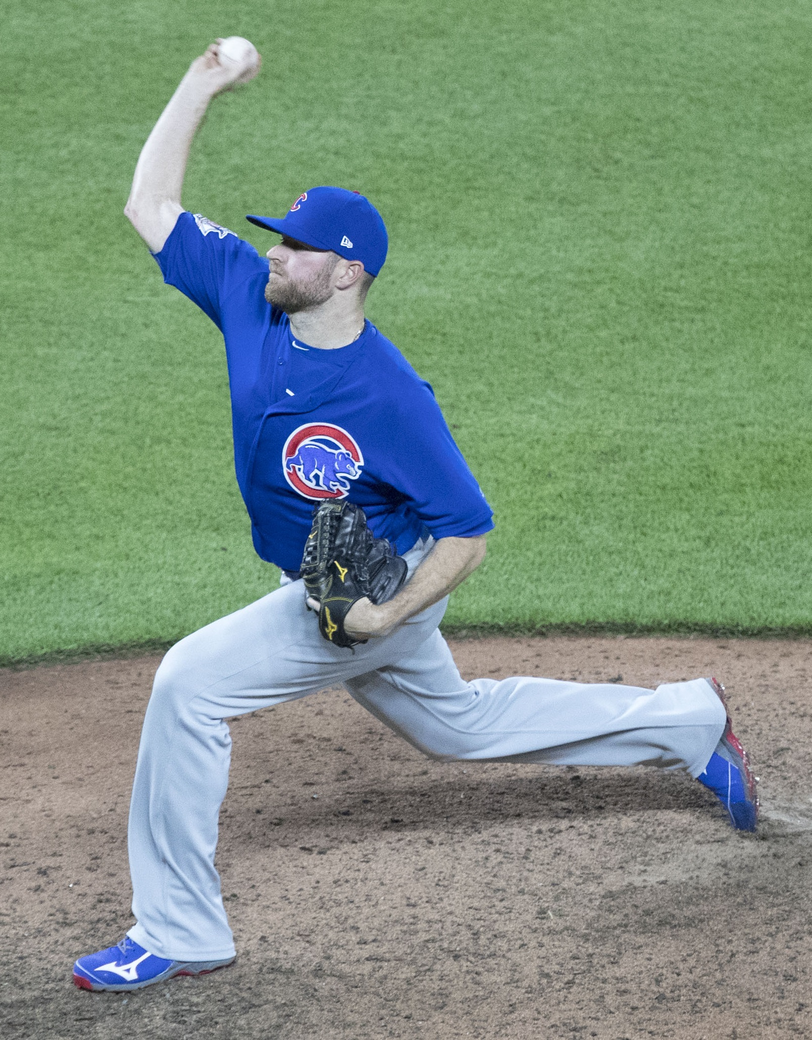 Cubs at Orioles 7/14/17